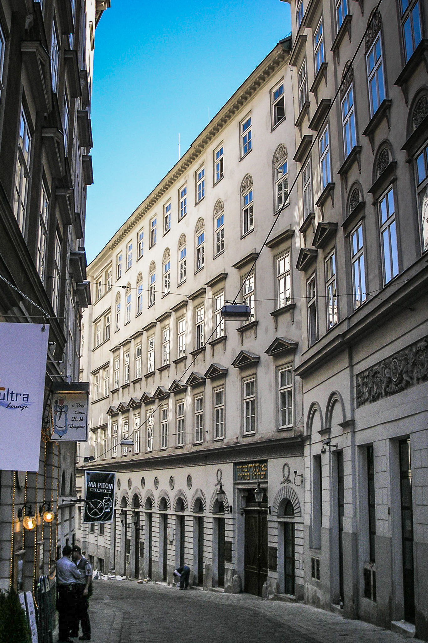 Image of the Stadttempel in Vienna.